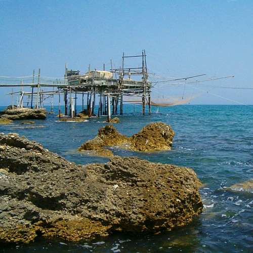 Trabocco, near Vasto Picture taken by user:Idéfix, august 2003